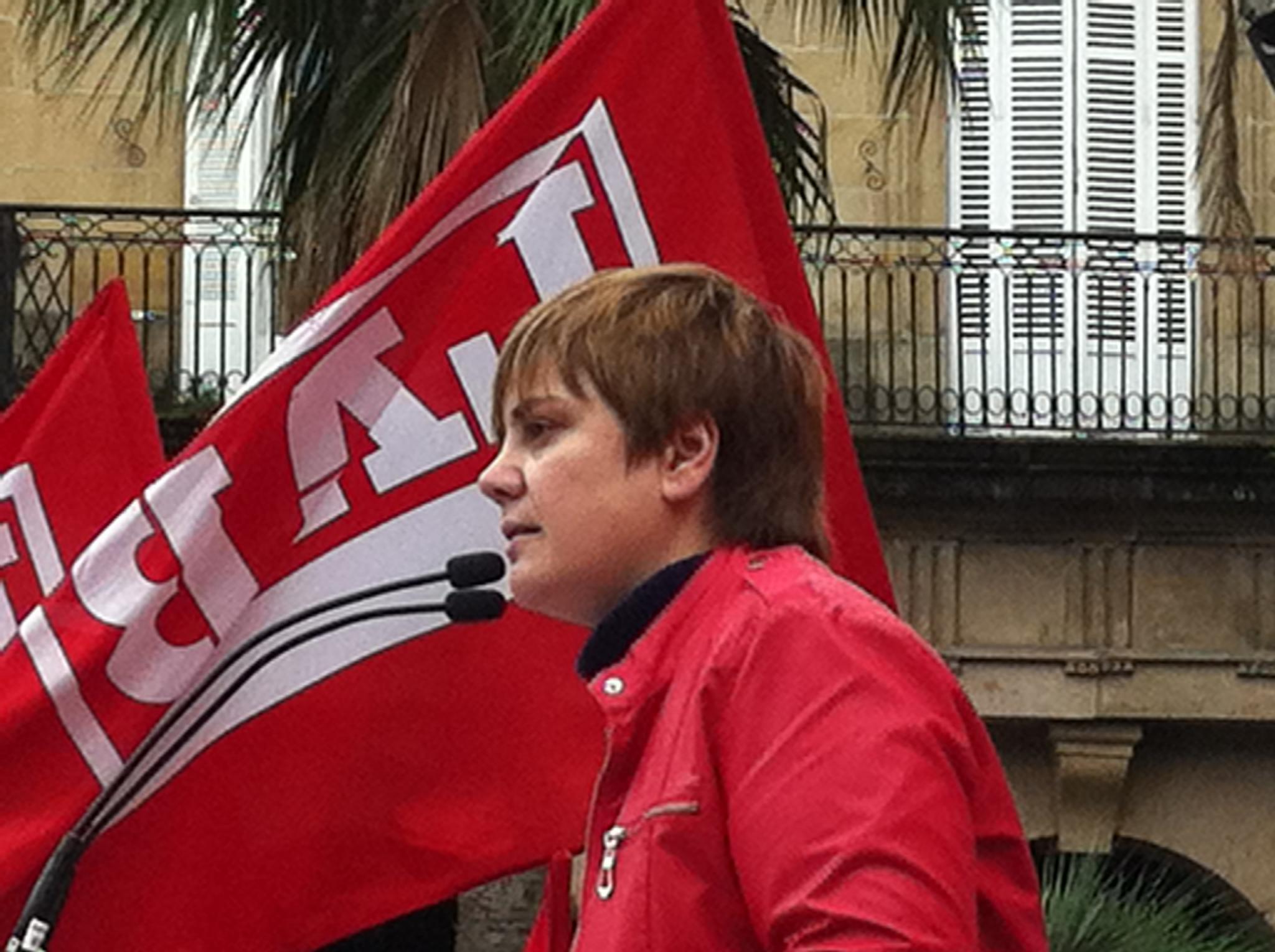 Ainhoa Etxaide